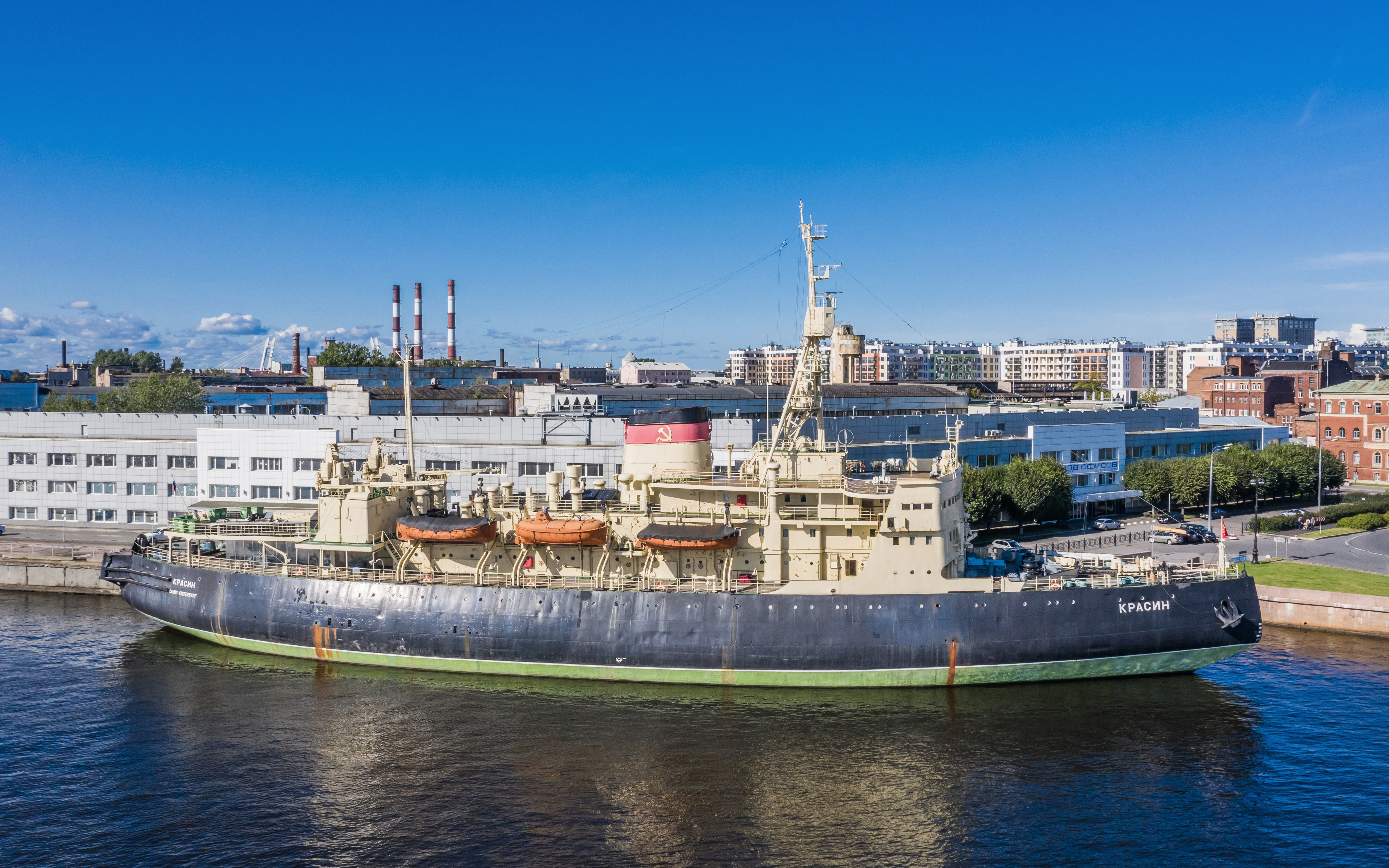 Krassin (1916 icebreaker) in Saint Petersburg, Russia: aerial photo